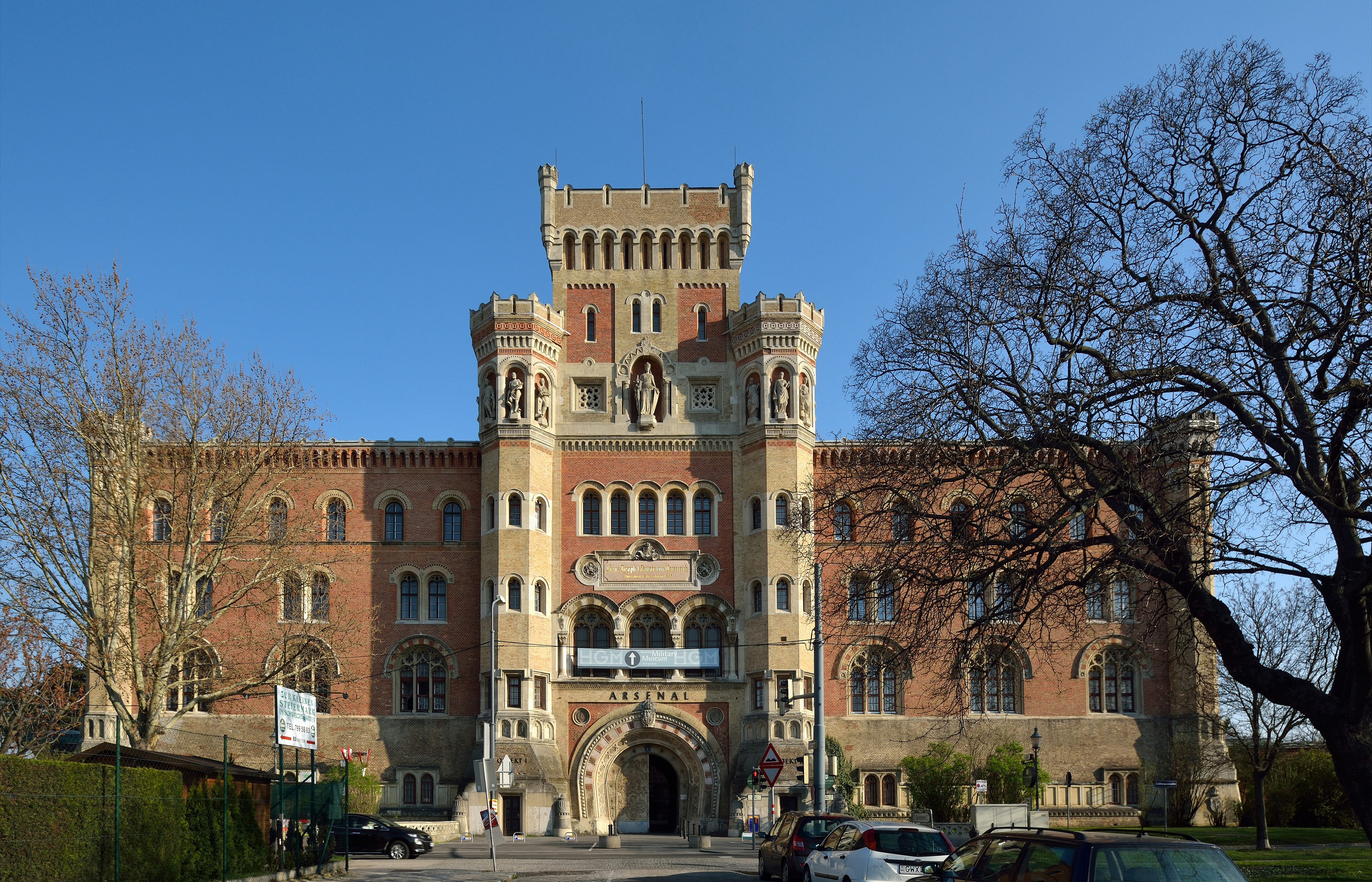 Museum of Military History, 3rd district of Vienna